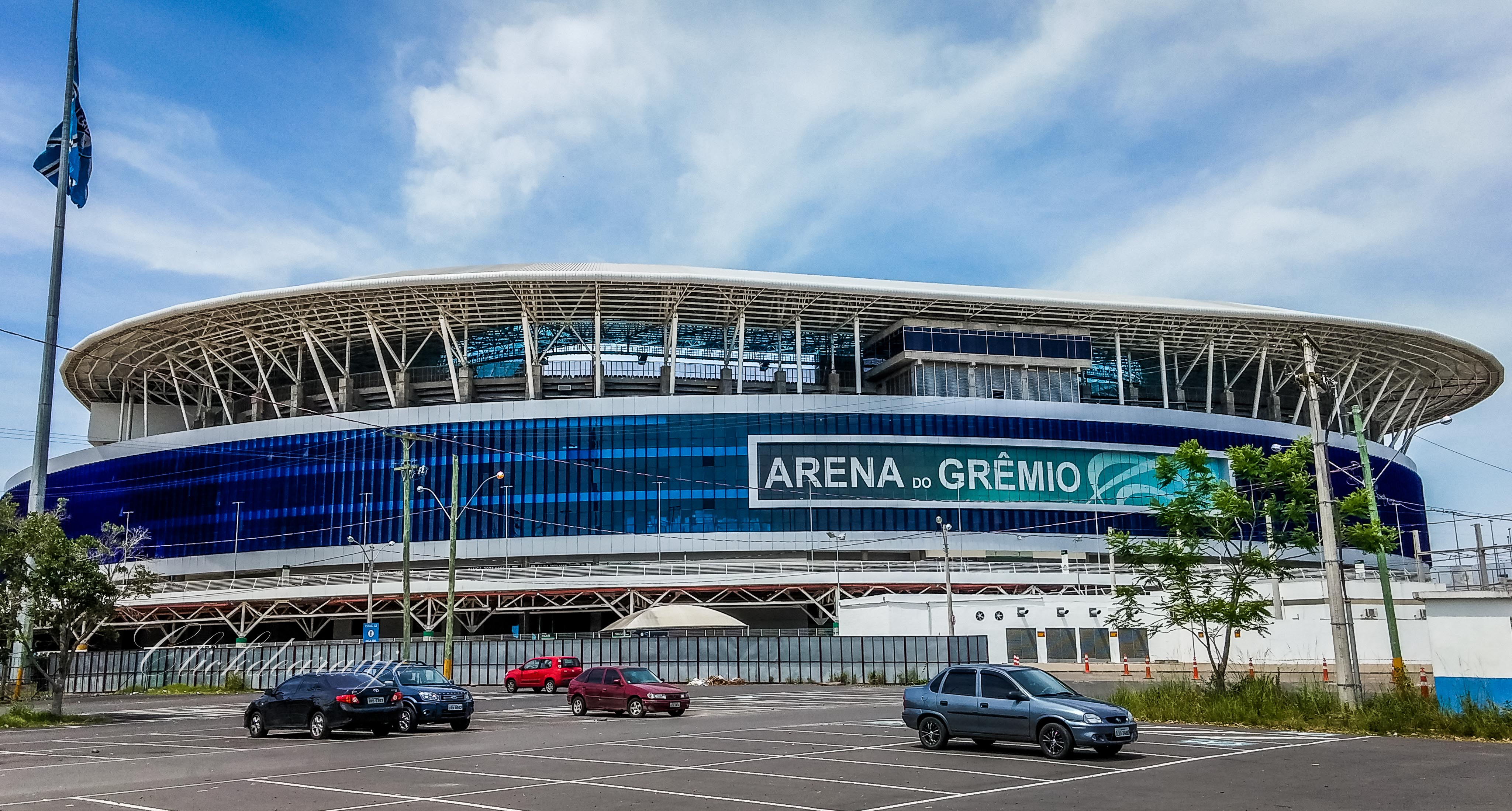 Arena do Grêmio is a multi-use stadium in Porto Alegre, Rio Grande do Sul, Brazil. It was inaugurated on December 8, 2012. It is used mostly for football matches and as the home stadium of Grêmio, replacing the Estádio Olímpico Monumental. With 55,662 capacity, the stadium is one of the most modern venues in South America.